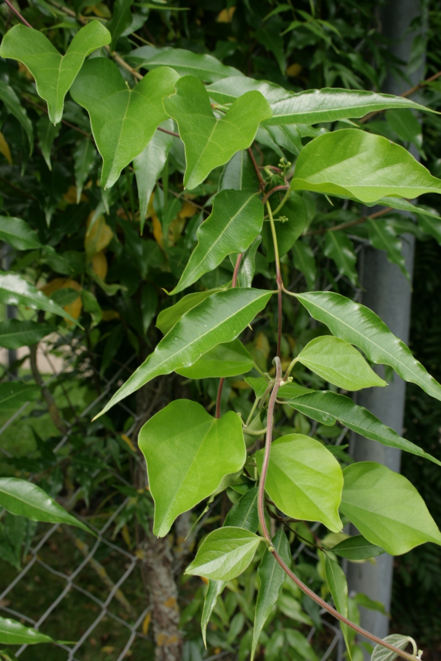 Periploca sepium: Foliage (Photo from the Botanical Garden of Aarhus, Denmark)